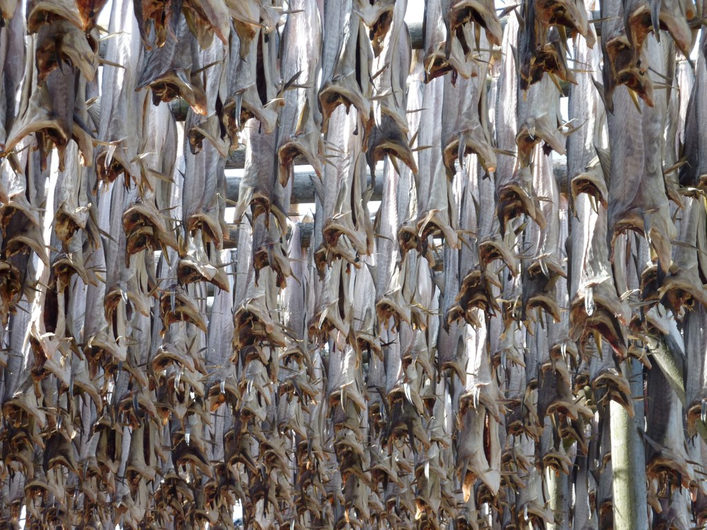 Stockfish in Røst, Norway